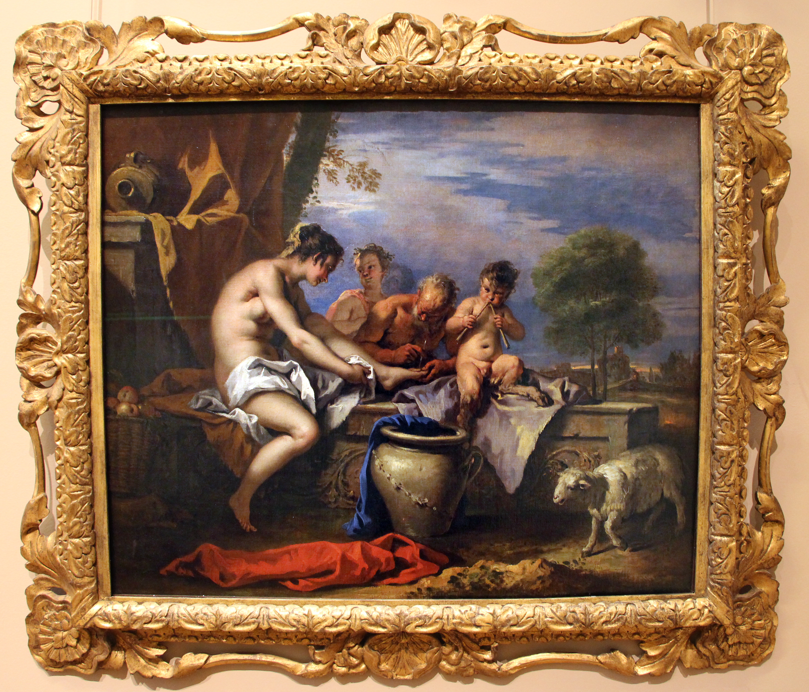 Italian paintings in the Louvre